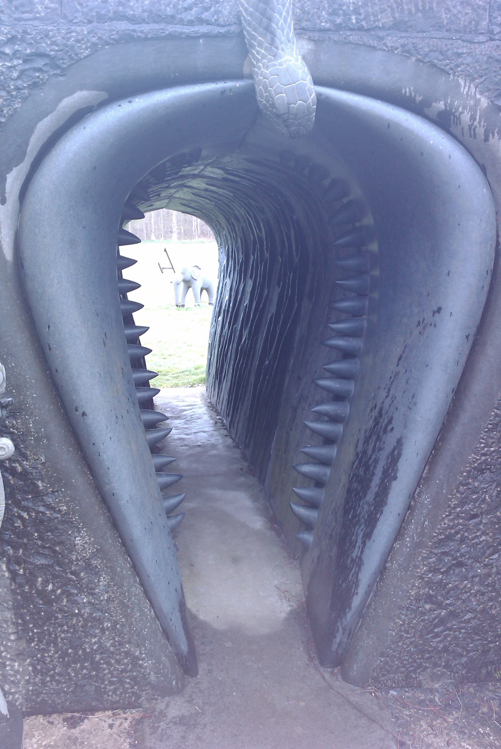 Entrance to Victoria's Way meditation garden, near Roundwood, Wicklow, Ireland.